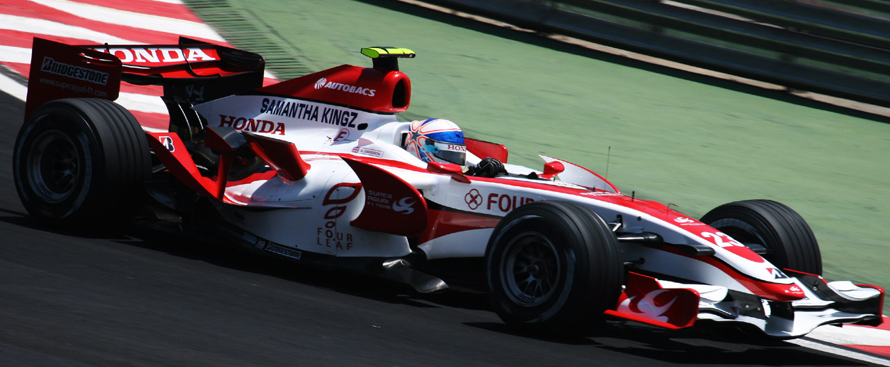 Formula One 2007 Rd.17 Brazilian GP: Anthony Davidson (Super Aguri) at the free practice on Saturday